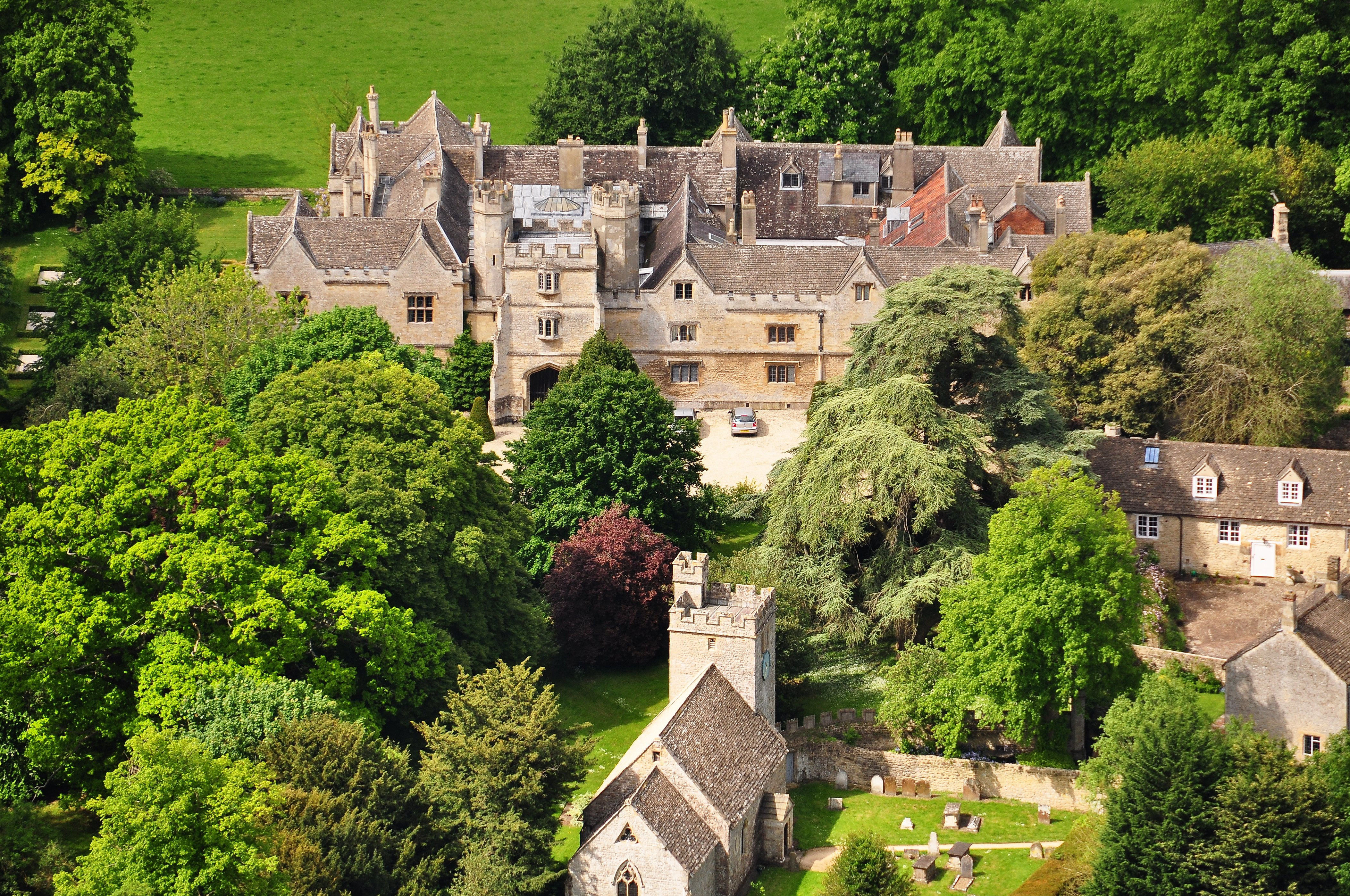 Aerial view of Wytham, Oxfordshire, with All Saints' parish church in the foreground and Wytham Abbey beyond